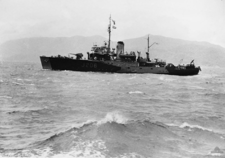 Australian Bathurst class minesweeping corvetter HMAS Lithgow at Milne Bay, Papua during 1943.